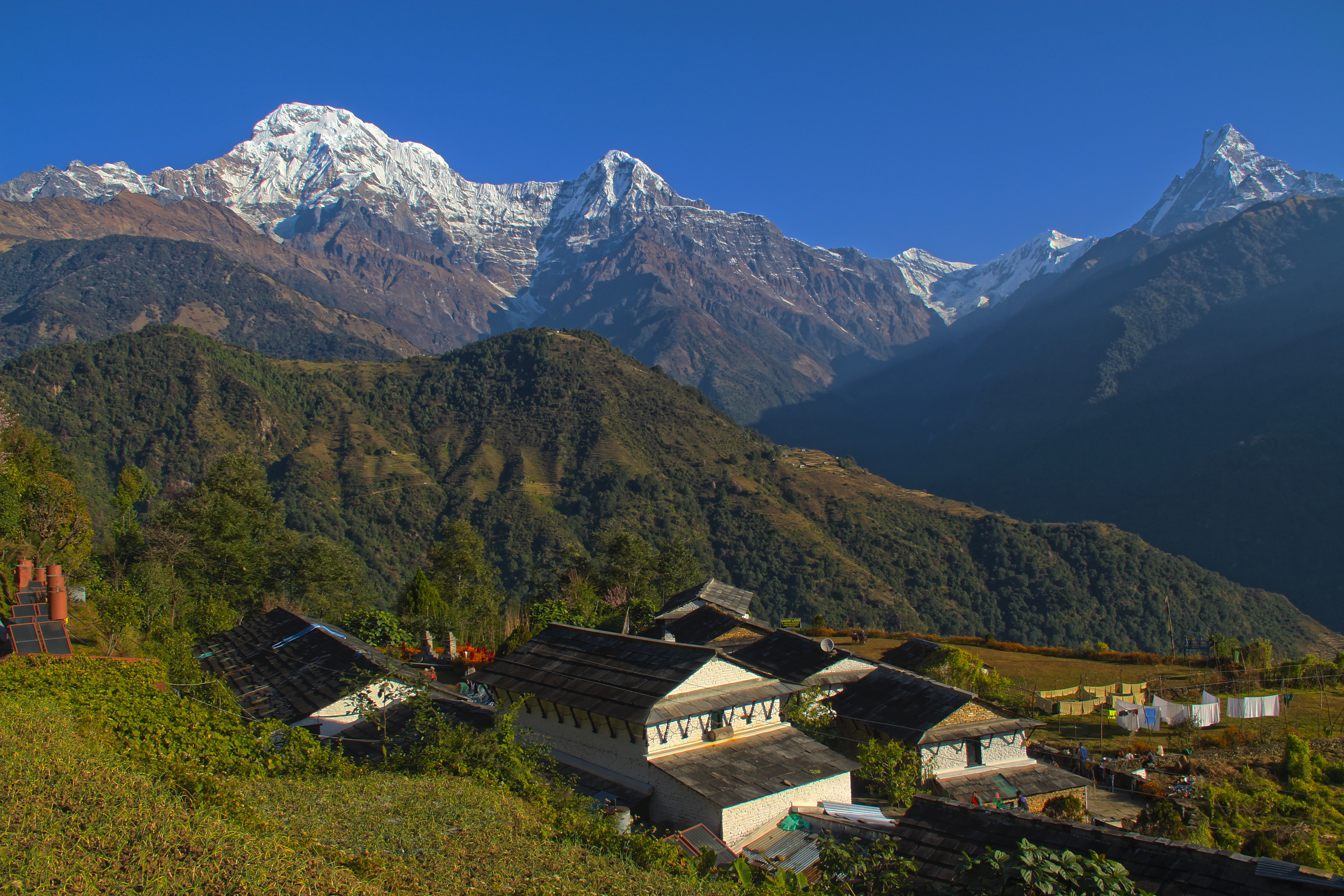 Ghandruk